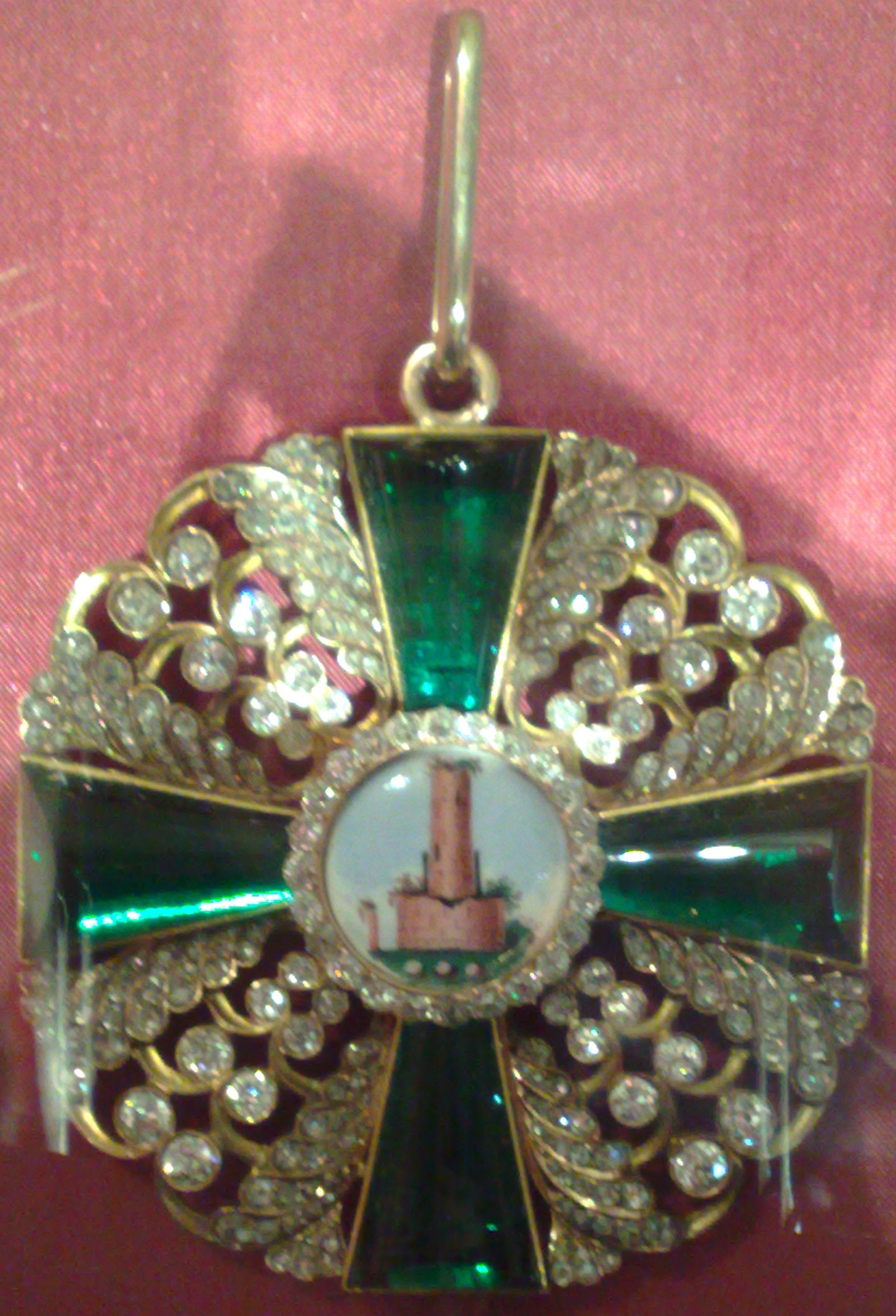 zaehringer loewen orden with diamonds